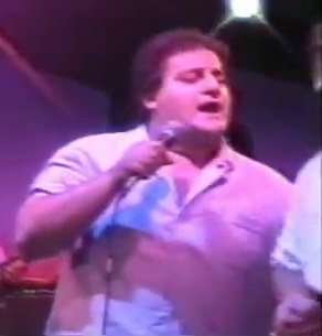 Rubén Sadrinas in 1992